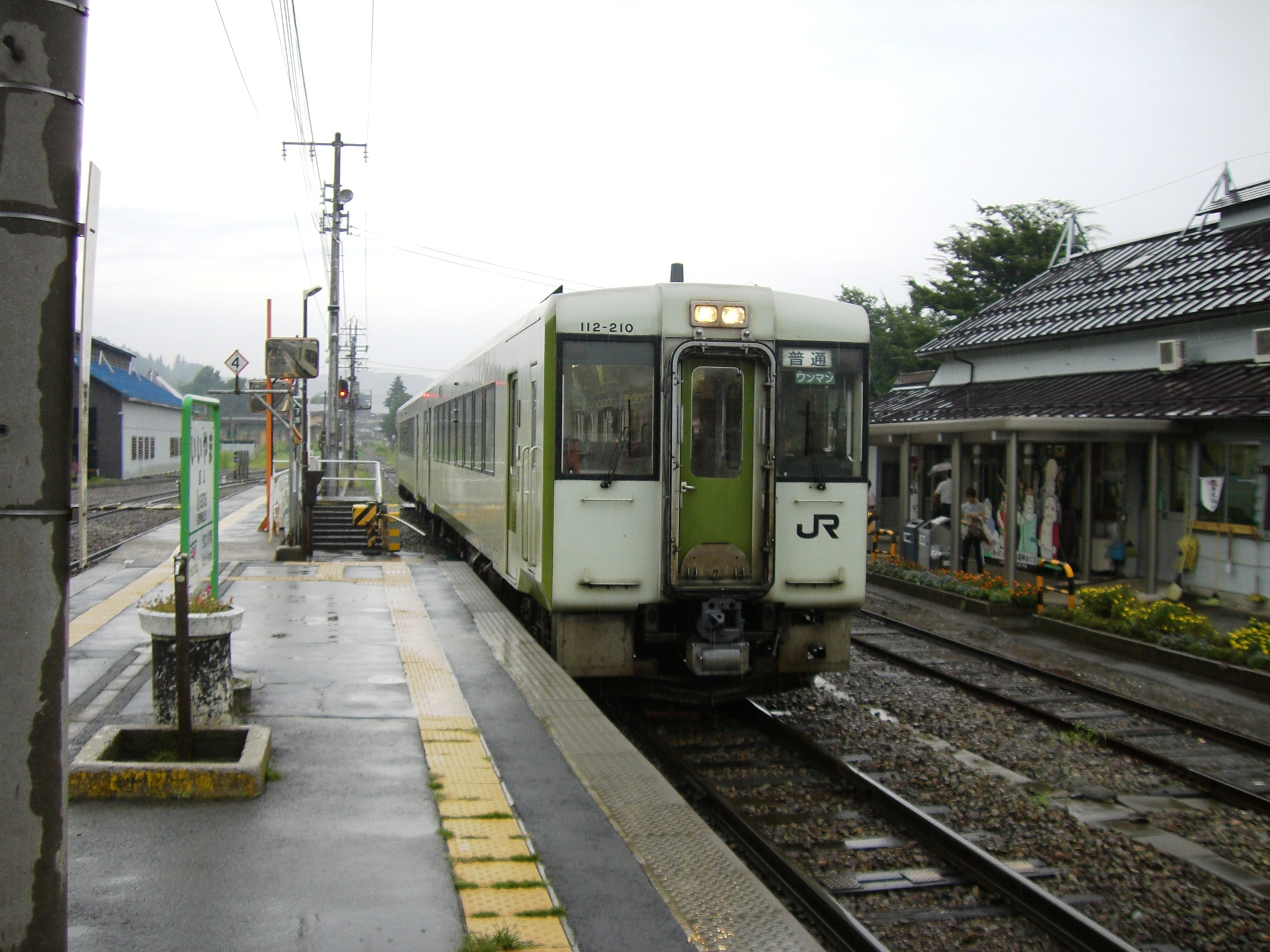 A JR East KiHa 110 series 2-car DMU at the former Iiyama Station on the Iiyama Line in Nagano Prefecture